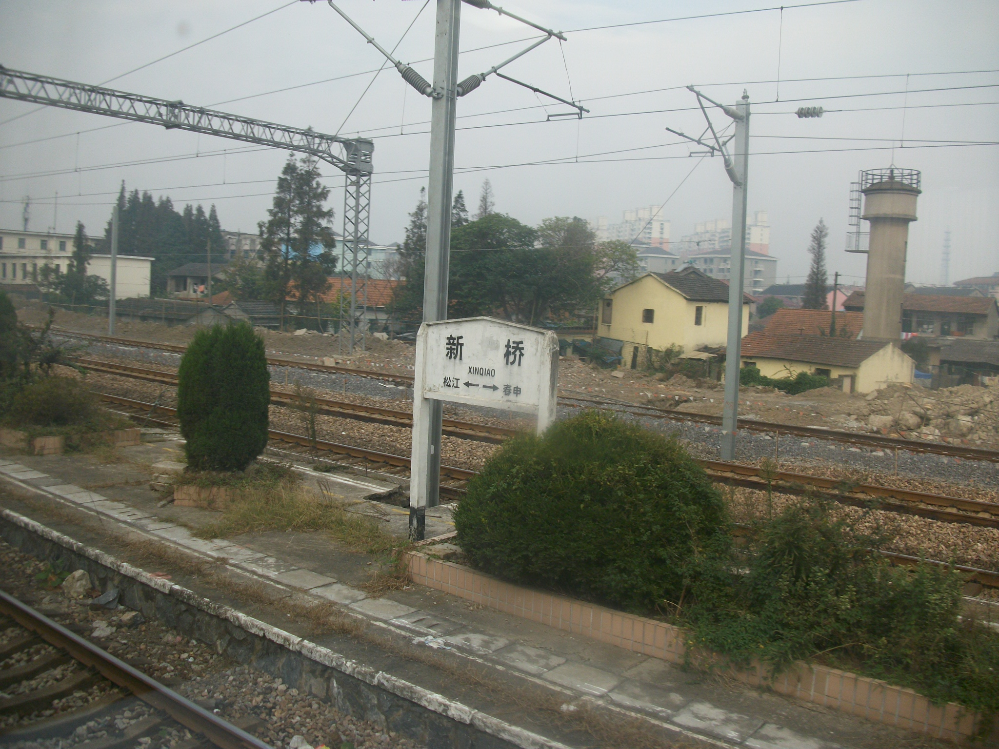 Xinqiao Station.